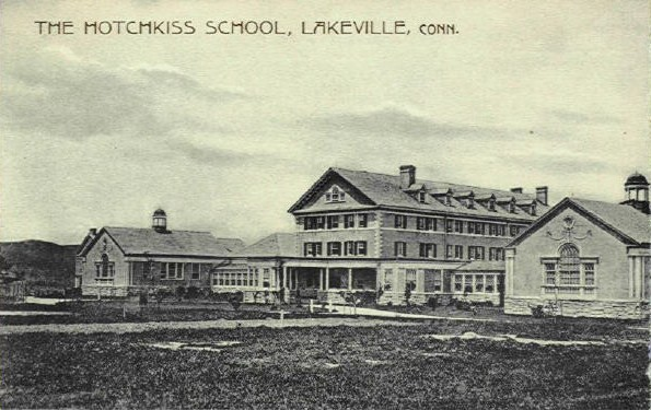 Postcard picture of Hotchkiss School in Lakeville, Connecticut (in the town of Salisbury, in Litchfield County); opposite side of card has name of publishing company, but it's illegible: something like "P. H. Oakes" in Lakeville, Connecticut, Printed in Germany